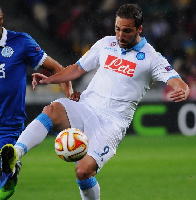 Gonzalo Higuaín